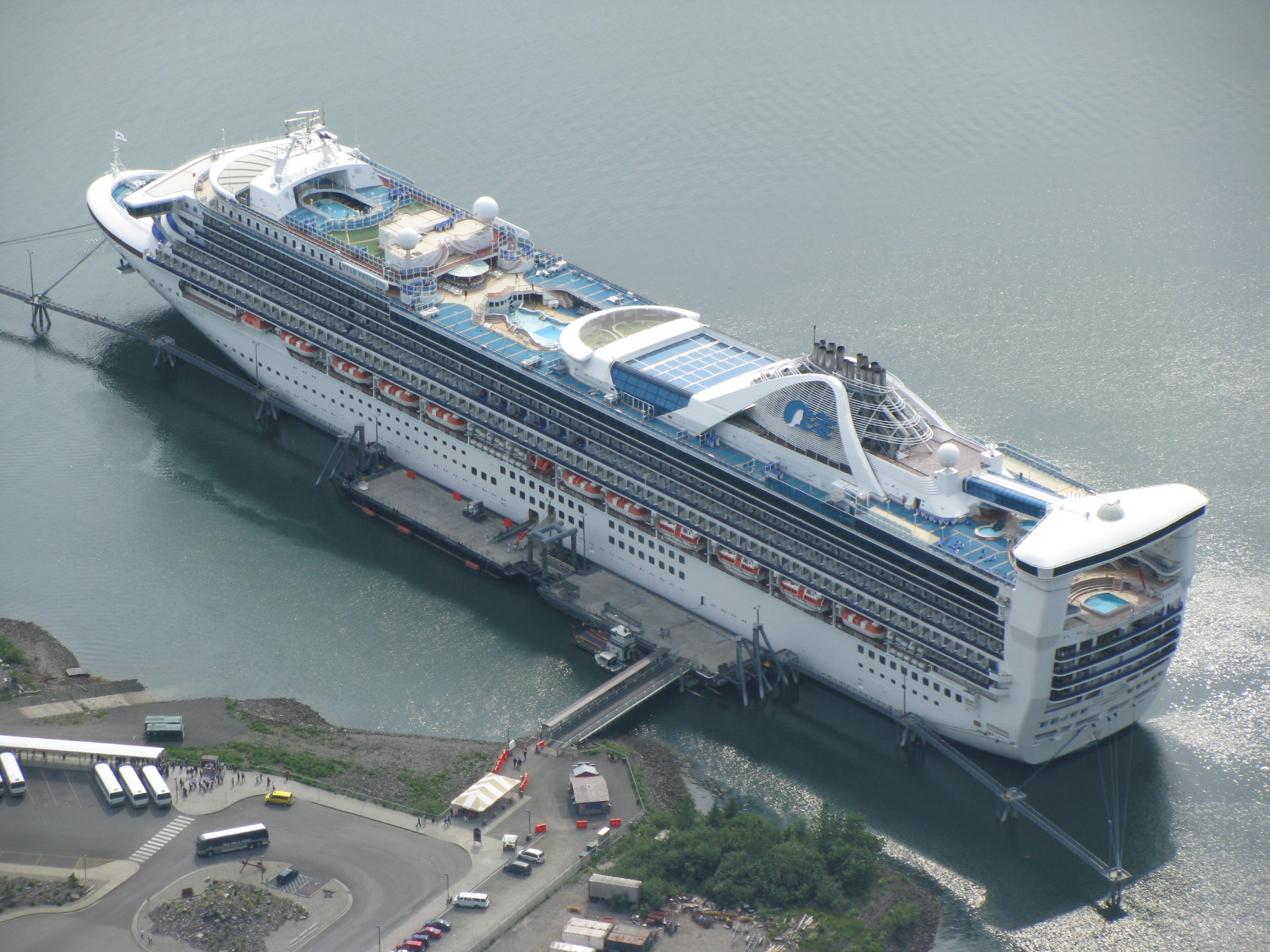 Elevated view of the Star Princess, taken from Mt.Roberts, Juneau, AK, USA IMO: 9192363